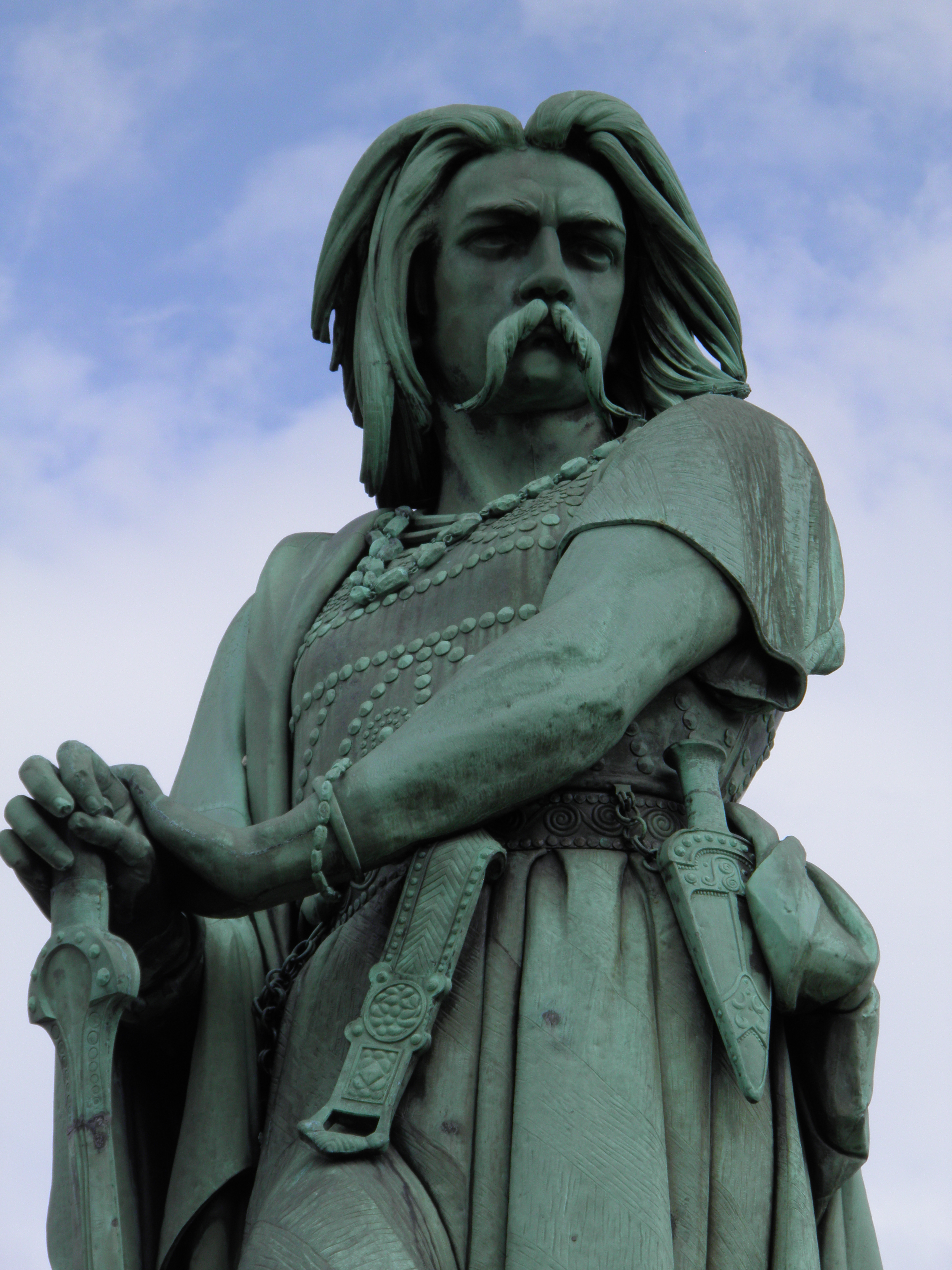 The colossal statue of Vercingetorix, Alesia